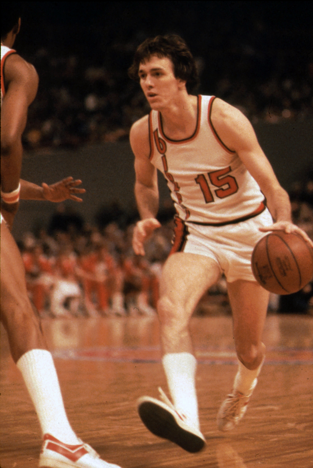 Professional basketball player Larry Steele